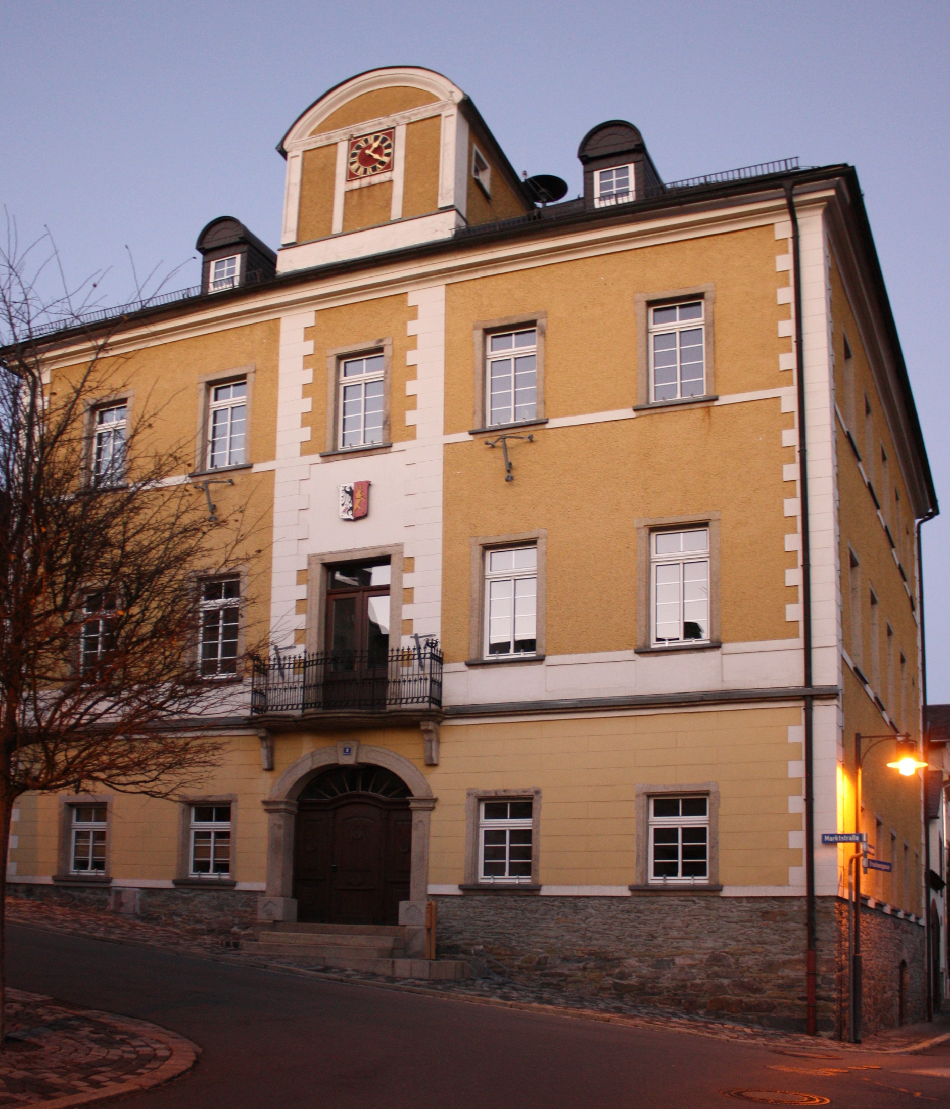 Town hall in Hirschberg/Saale near Schleiz/Thuringia